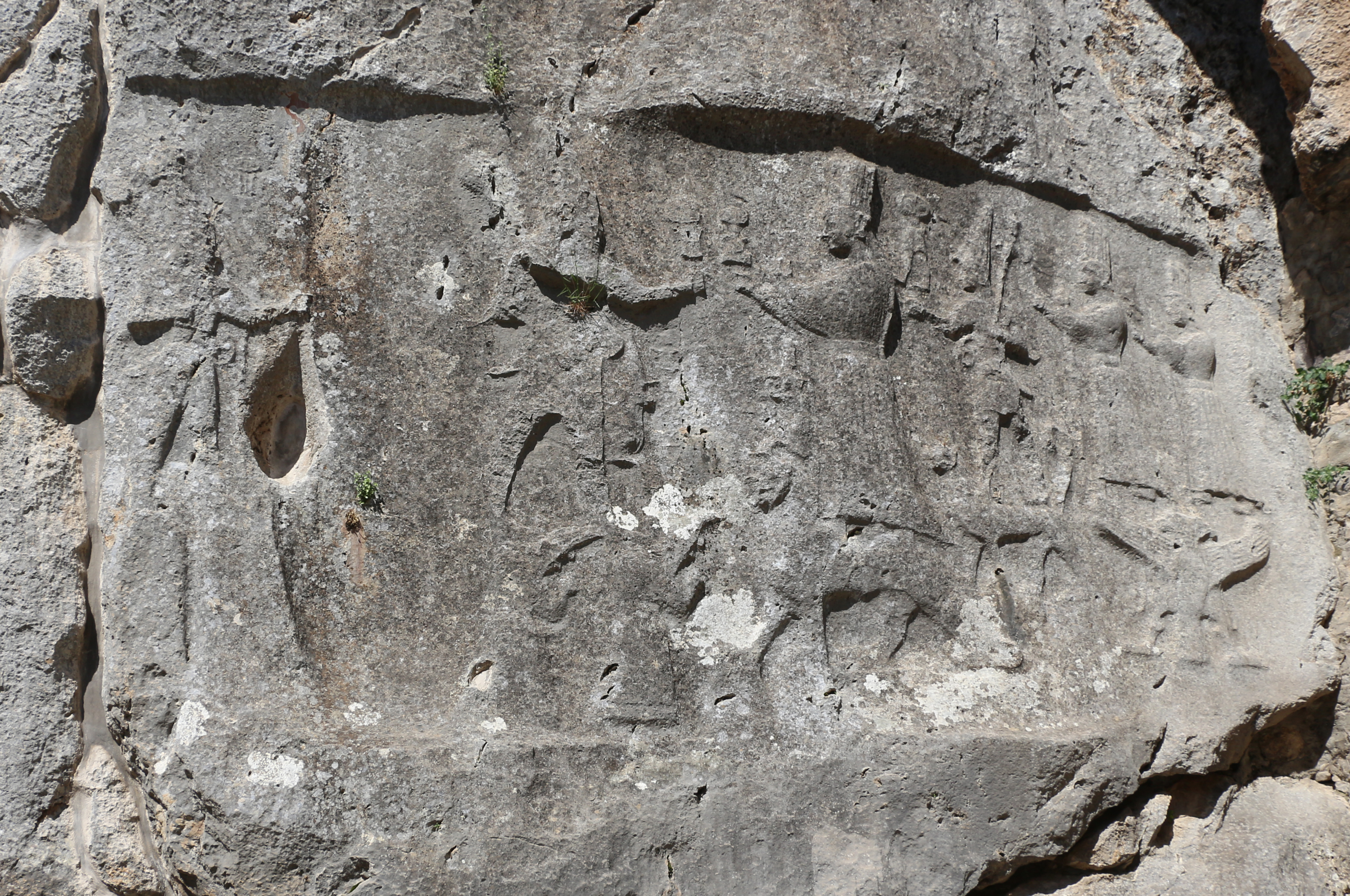 Relief of storm-god Teshub and sun-goddess Hebat in Chamber A, Yazilikaya, Turkey